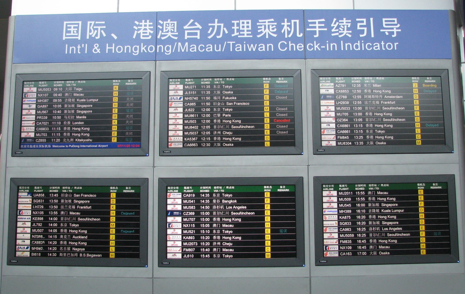 Shanghai airport check-in display, november 2007, with the header Intl and Hong Kong / Macau / Taiwan